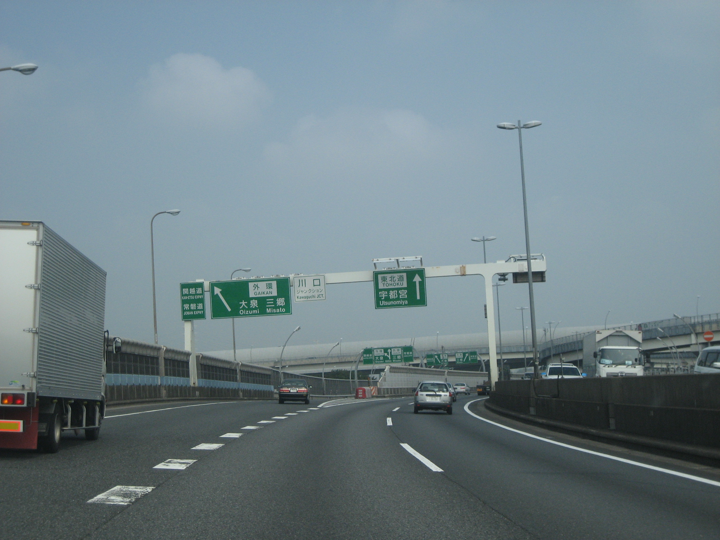 Kawaguchi Junction on the Shuto Expressway Kawaguchi Line